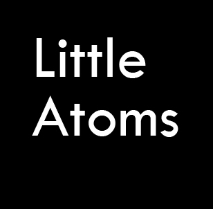 Designed in 2015, this is the Little Atoms logo